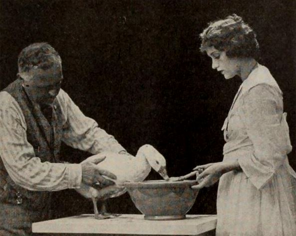 Still from the American comedy film Sauce for the Goose (1918) with an unidentified actor and Constance Talmadge, on page 33 of the September 21, 1918 Exhibitors Herald.